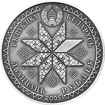 "Vialikdzen" Silver commemorative coins, denomination: 20 rubles